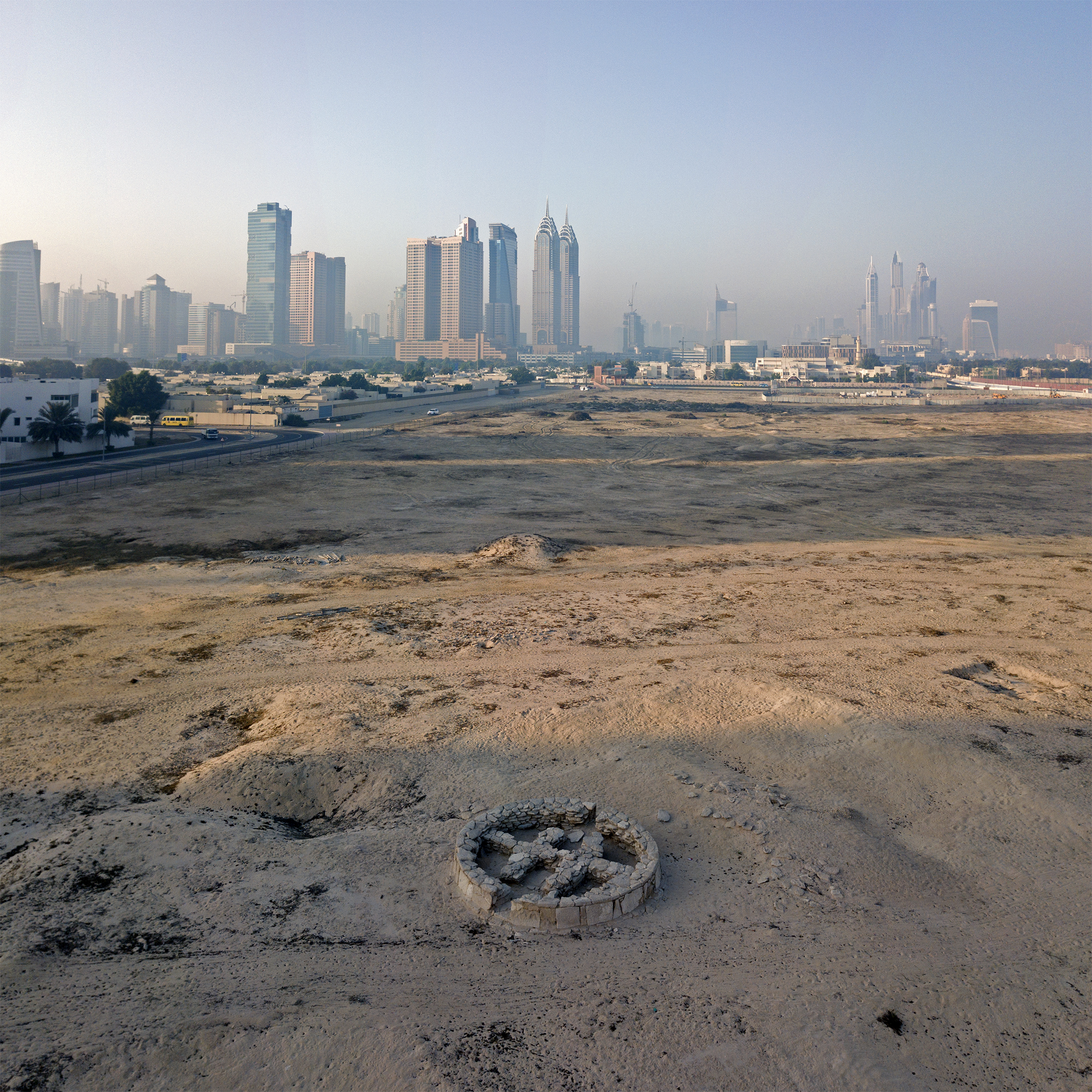 This is the round Umm Al Nar type tomb from the Al Sufouh archaeological site in Dubai, UAE